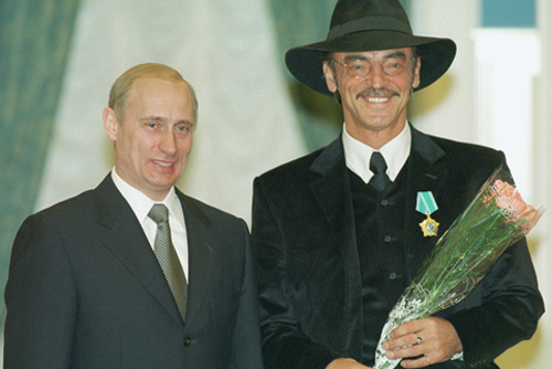 Putin and Mikhail Boyarskiy